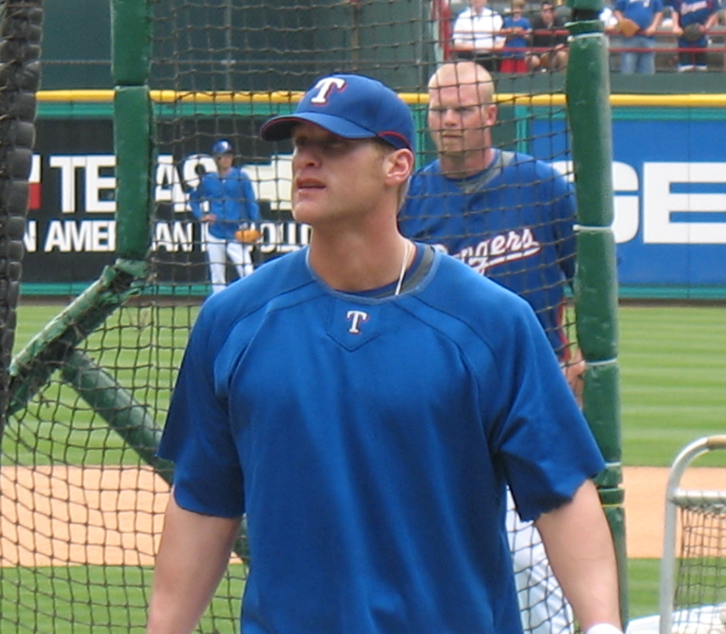 Jason Botts during batting practice at Rangers Ballpark in Arlington